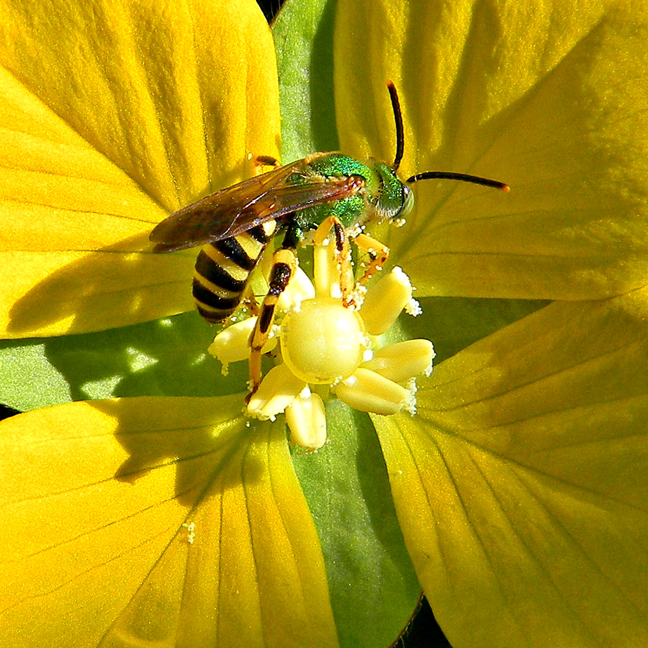 A male metallic green bee (Agapostemon splendens) exploring the sunlit core of a Mexican Primrose Willow blossom. The glowing orange tips of his antennae indicate he is transmitting data to other halictid bees in the area. (Just kidding) Frenchman's Forest Natural Area, Palm Beach county, Florida